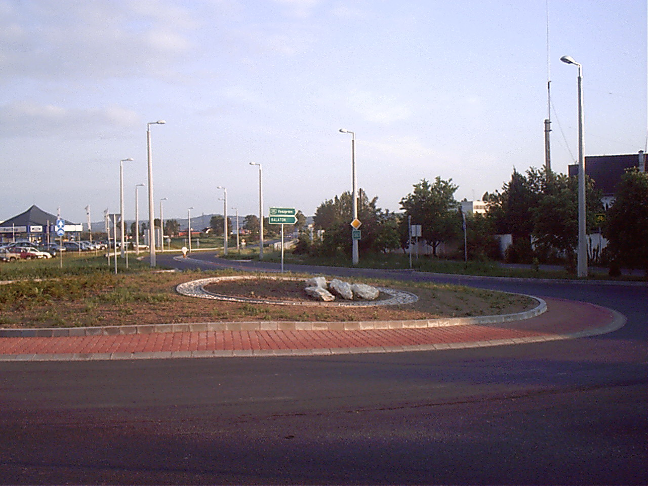 Roundabout of the national main road no. 82. in Győr